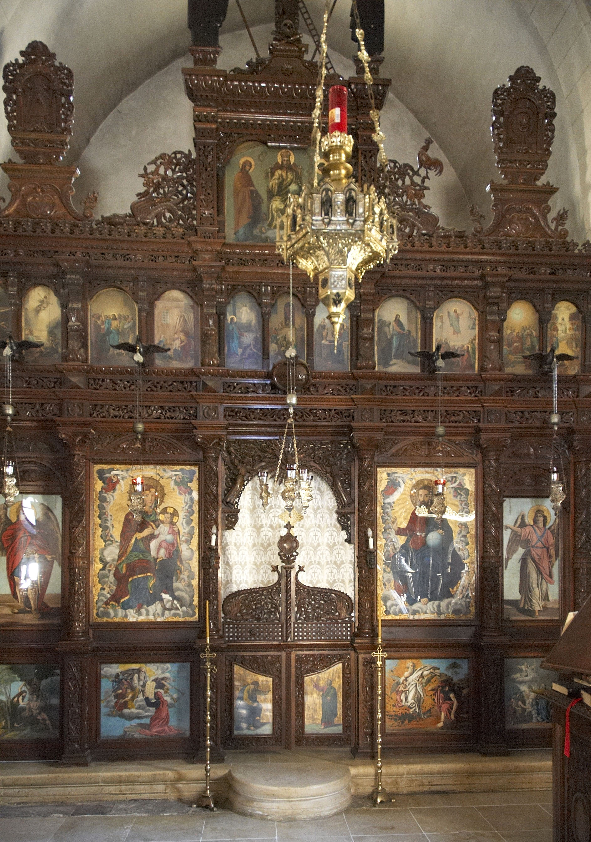 Inside the church at Arkadi Monastery / Moni Arkadiou, Crete